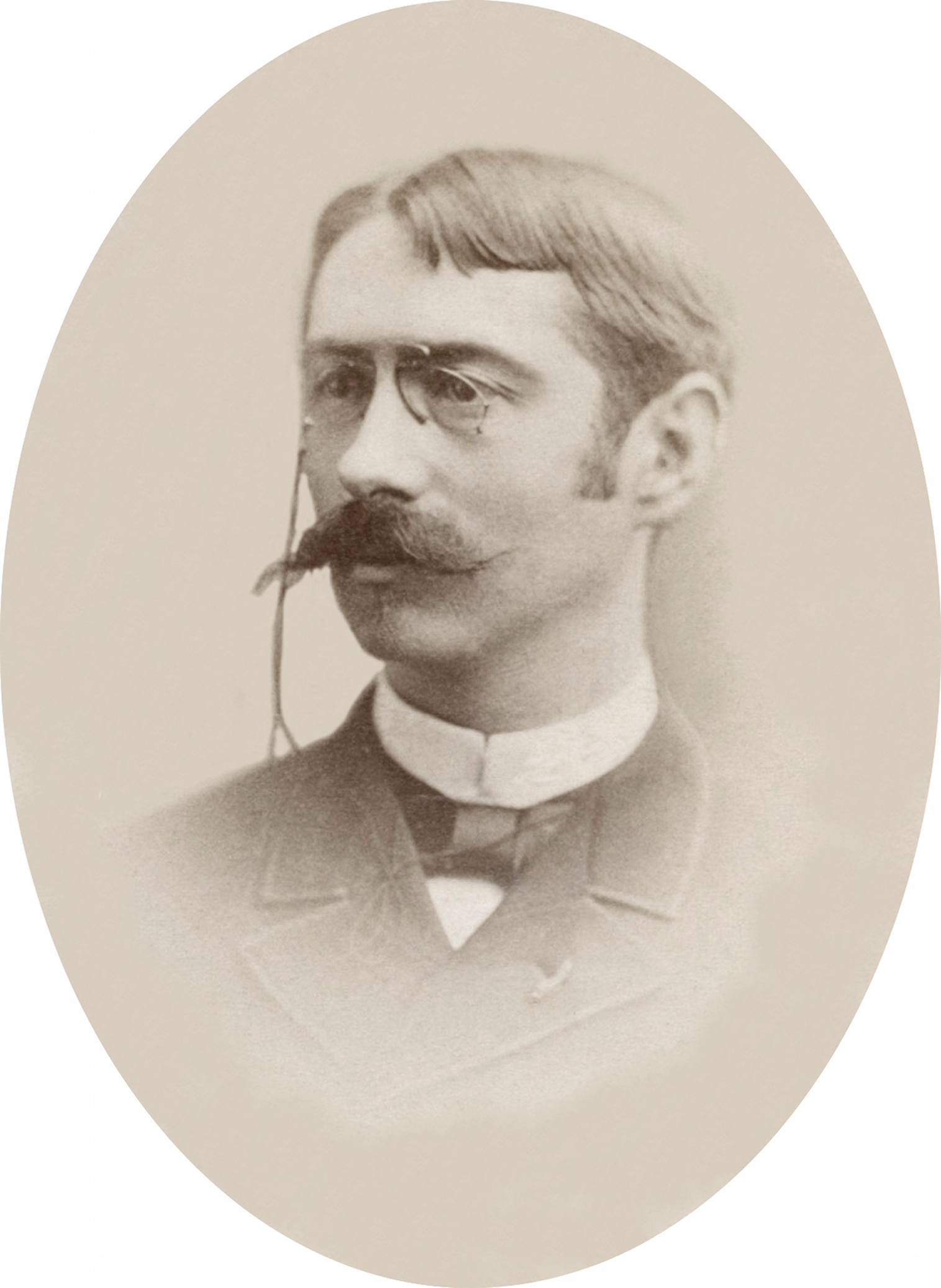 Edouard-Emile Saladin (1856 - 1917), french cartographer and engineer.